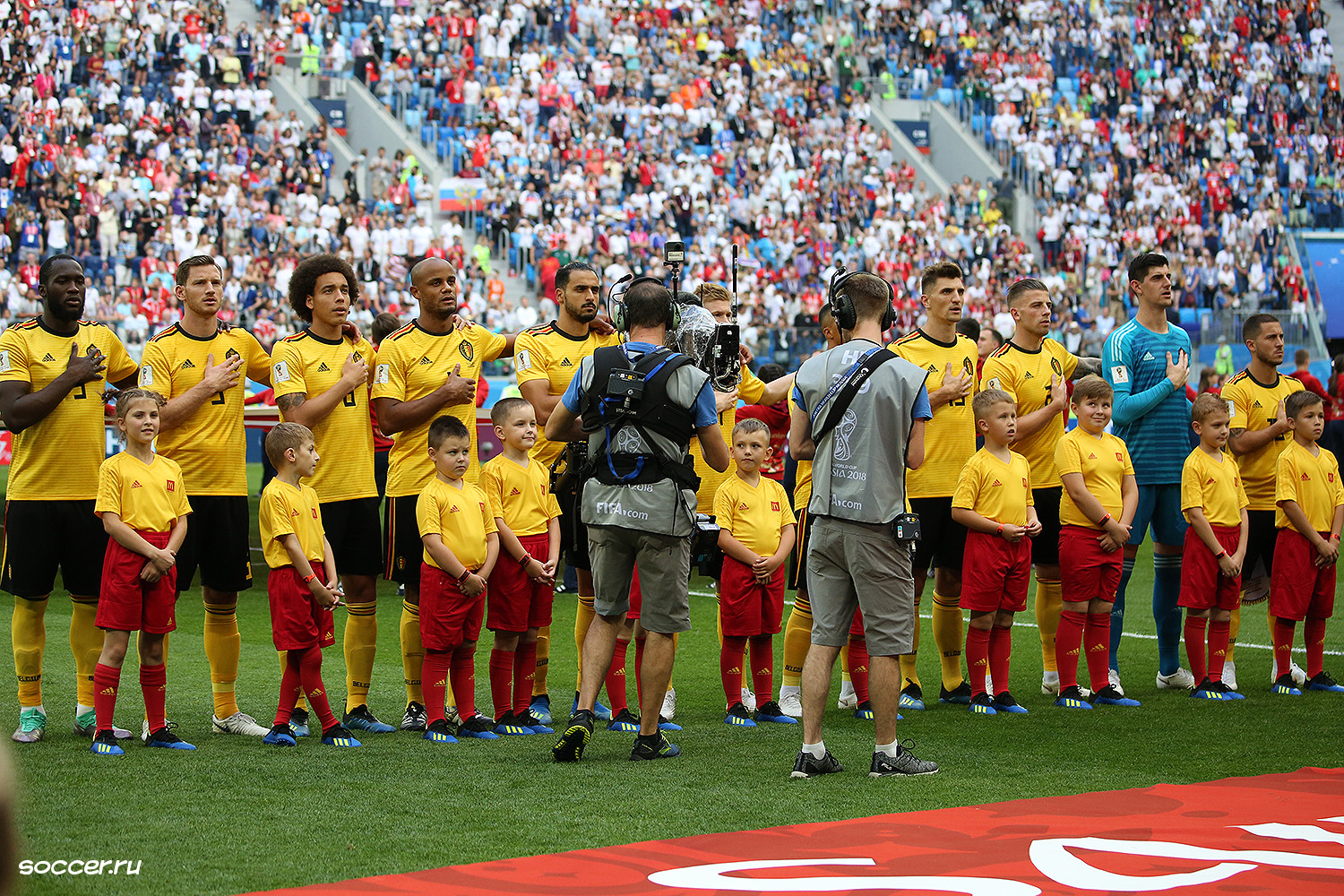 Belgium national football team line-up before the match against England, won 2-0 by Belgium.